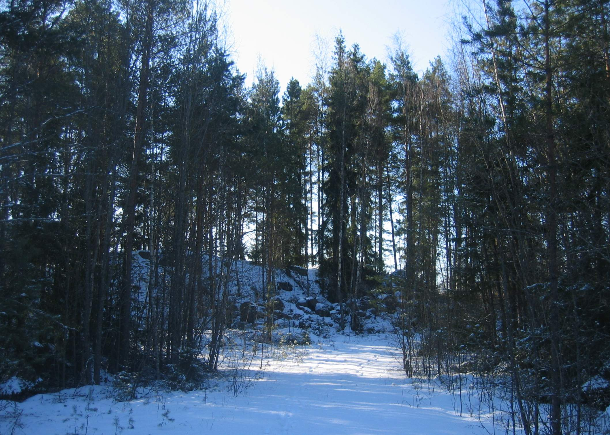 Location of the Hietamäki chapel in it's present state